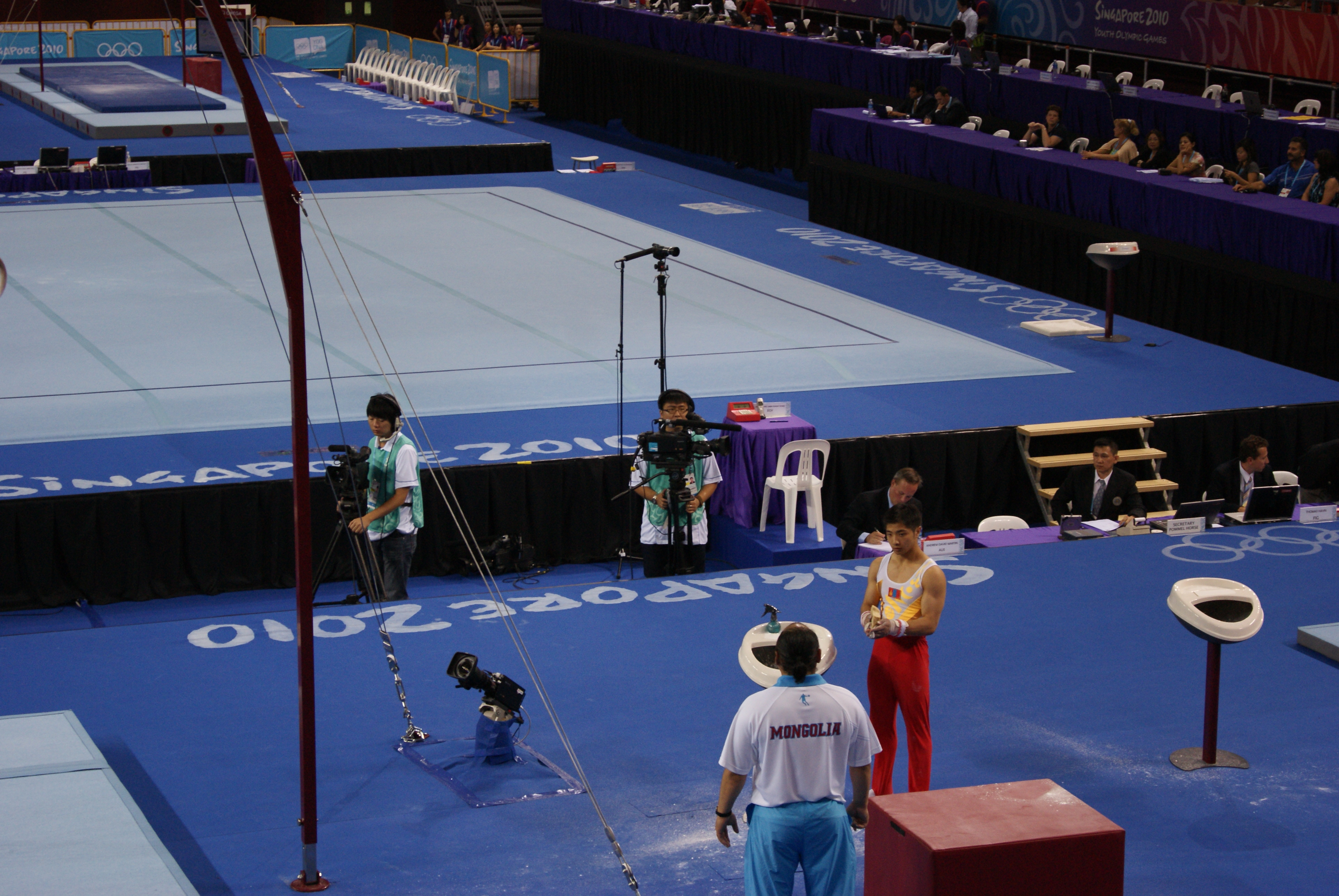 Mongolian gymnast Erdenebold Ganbatyn preparing to perform on the rings during Men's Qualification – Subdivision 1 of the artistic gymnastics competition at the 2010 Summer Youth Olympics at Bishan Sports Hall, Singapore.